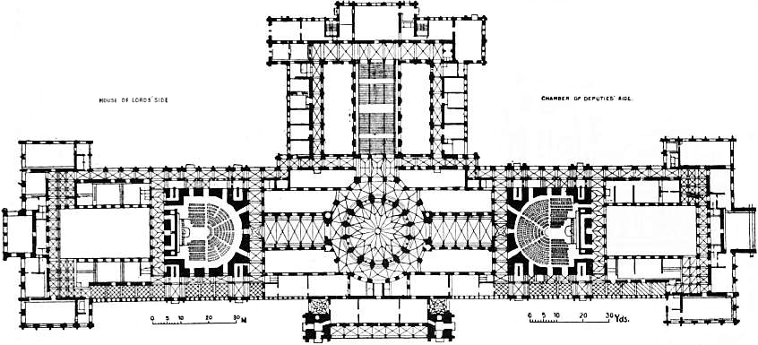 Plan of the Parliament House, Budapest. (Steindl).Illustration from 1911 Encyclopædia Britannica, article Architecture.